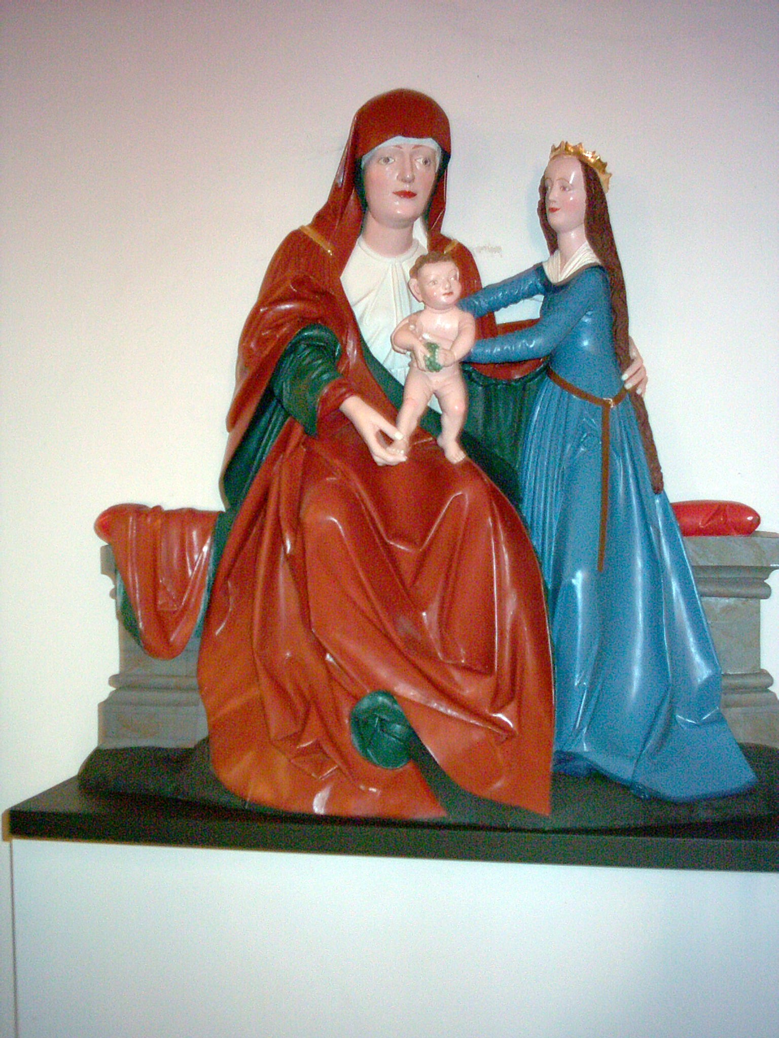 Church in Wilmersdorf